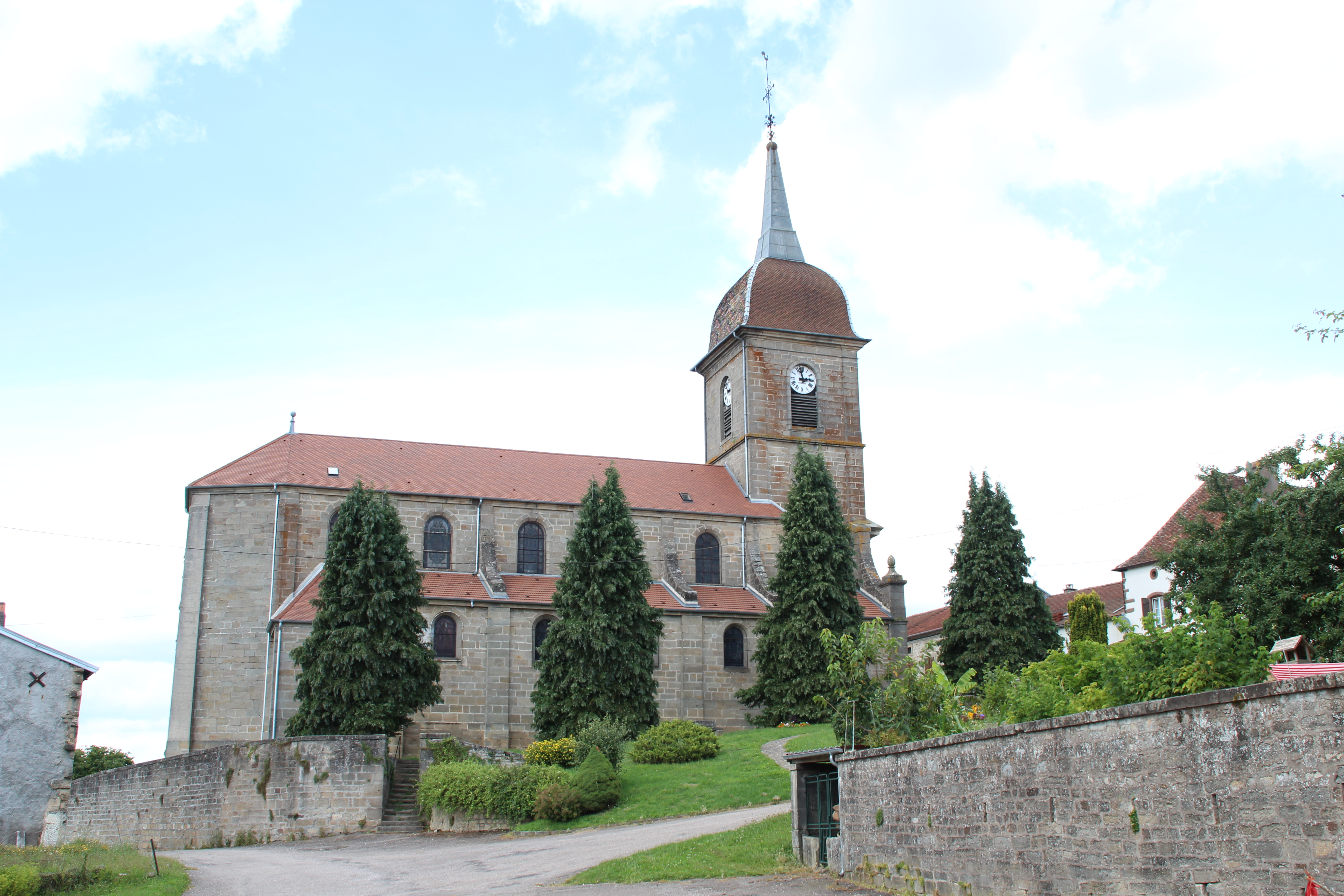 View of Fresnes-sur-Apance, France.